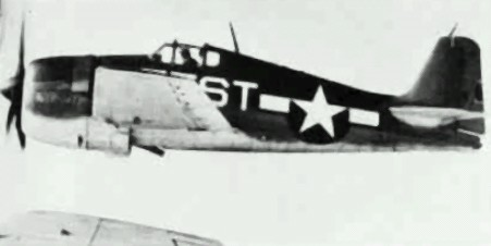 A U.S. Navy Grumman XF6F-2 Hellcat fighter in 1943. The F6F-2 was a turbo-charged version that was part of the original F6F contract. The XF6F-2 first flew in 1943 and had a Wright R-2600-6 engine combined with a Birmann turbo-supercharger. As the performance was not satisfactory, the engine was replaced by a Pratt & Whitney R-2800-21. The re-engined XF6F-2 first flew on 7 January 1944, but the performance was still not much improved. The project was abandoned and the XF6F-2 was rebuilt as a F6F-3.